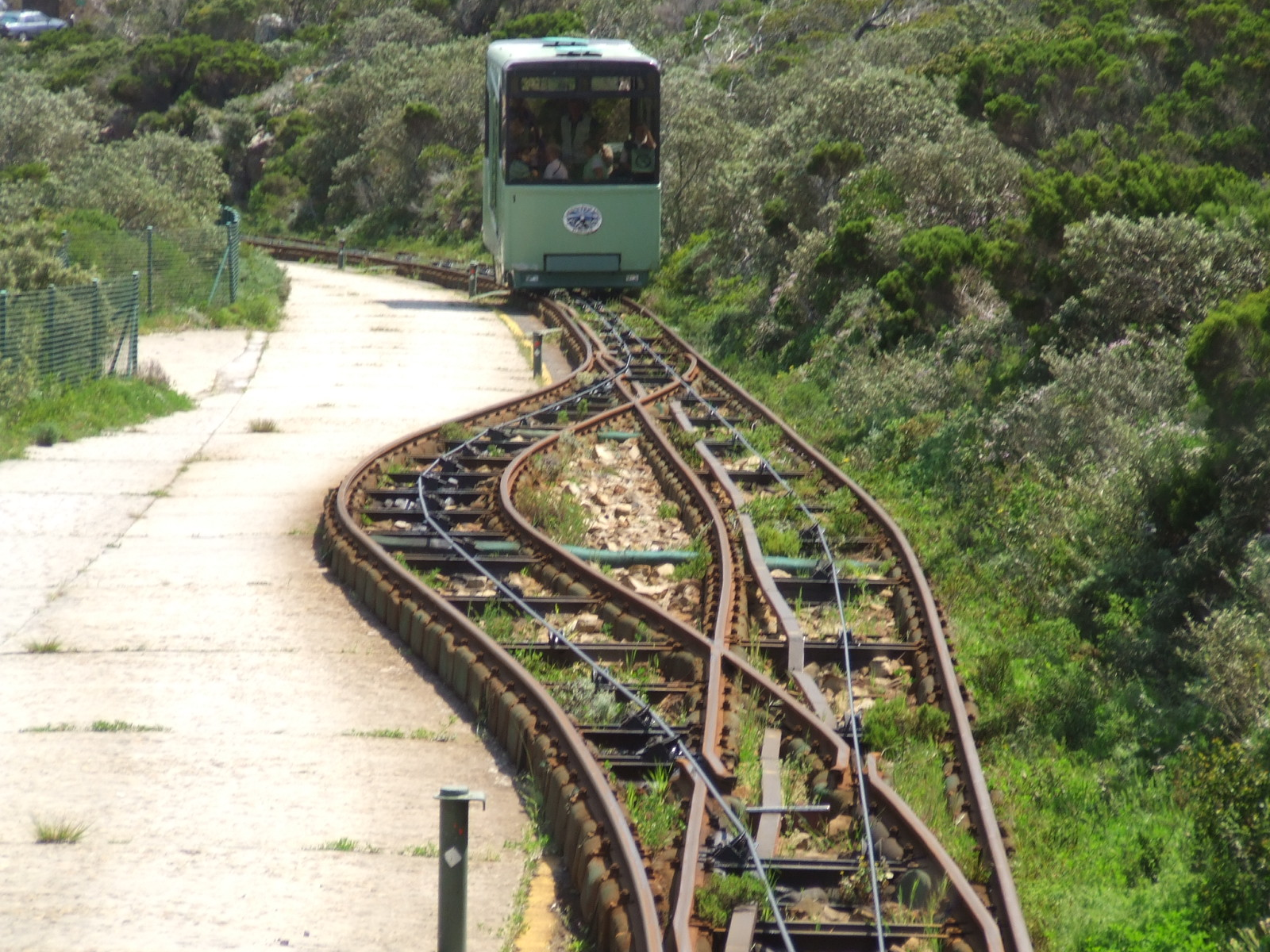 Flying Dutchman Funicular passing track at Cape Point, South Africa.